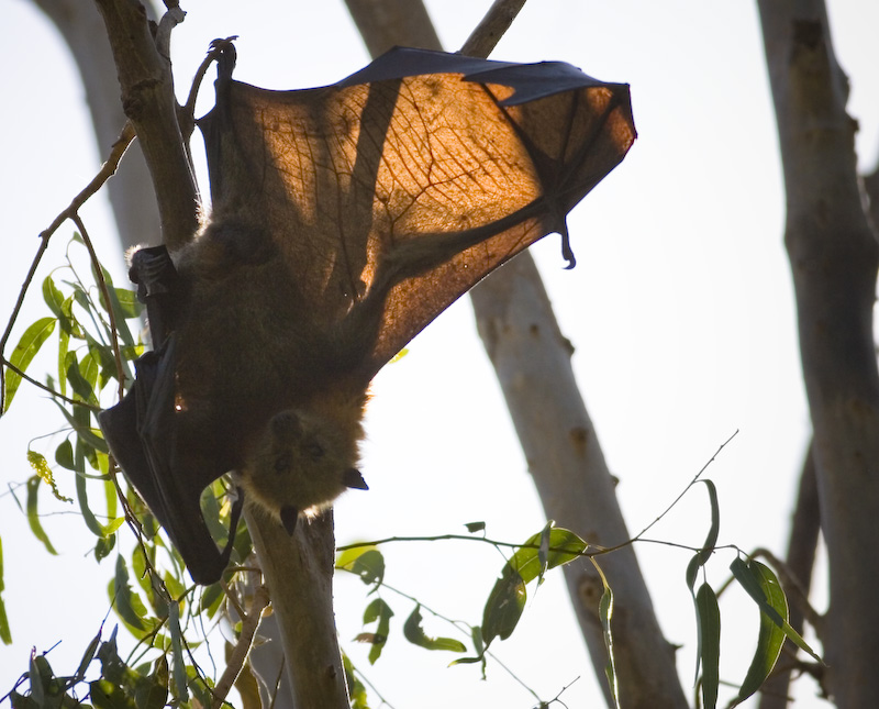 A shot of a Pteropus poliocephalus giving birth taken by Adam Myhill, north of Currumbin in Queensland Australia. More Pteropus photos here